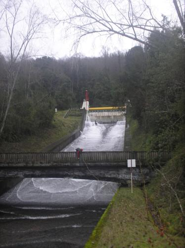 I took this photo wíth my own camera